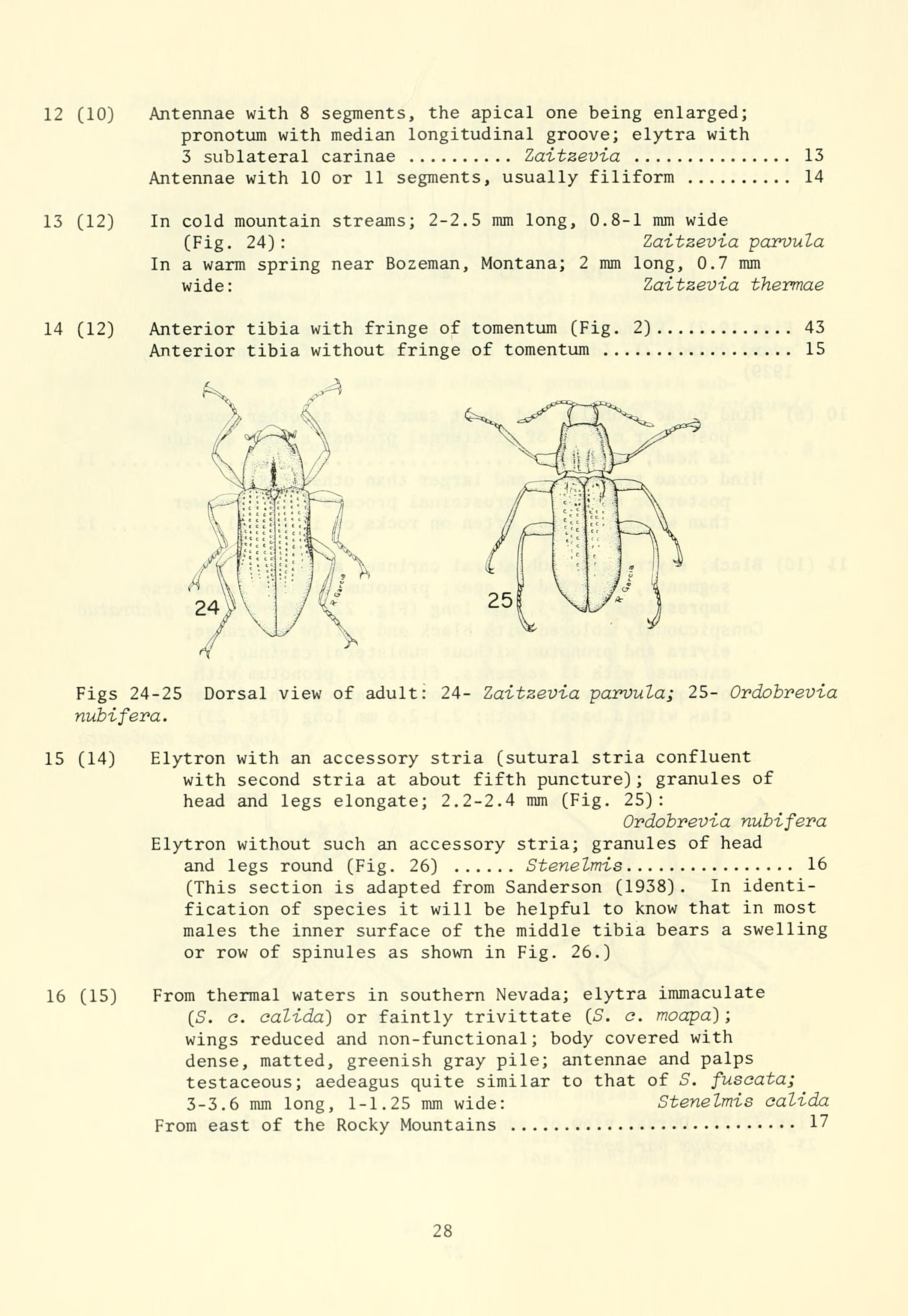 Aquatic dryopoid beetles (Coleoptera) of the United States, by Harley P. Brown.